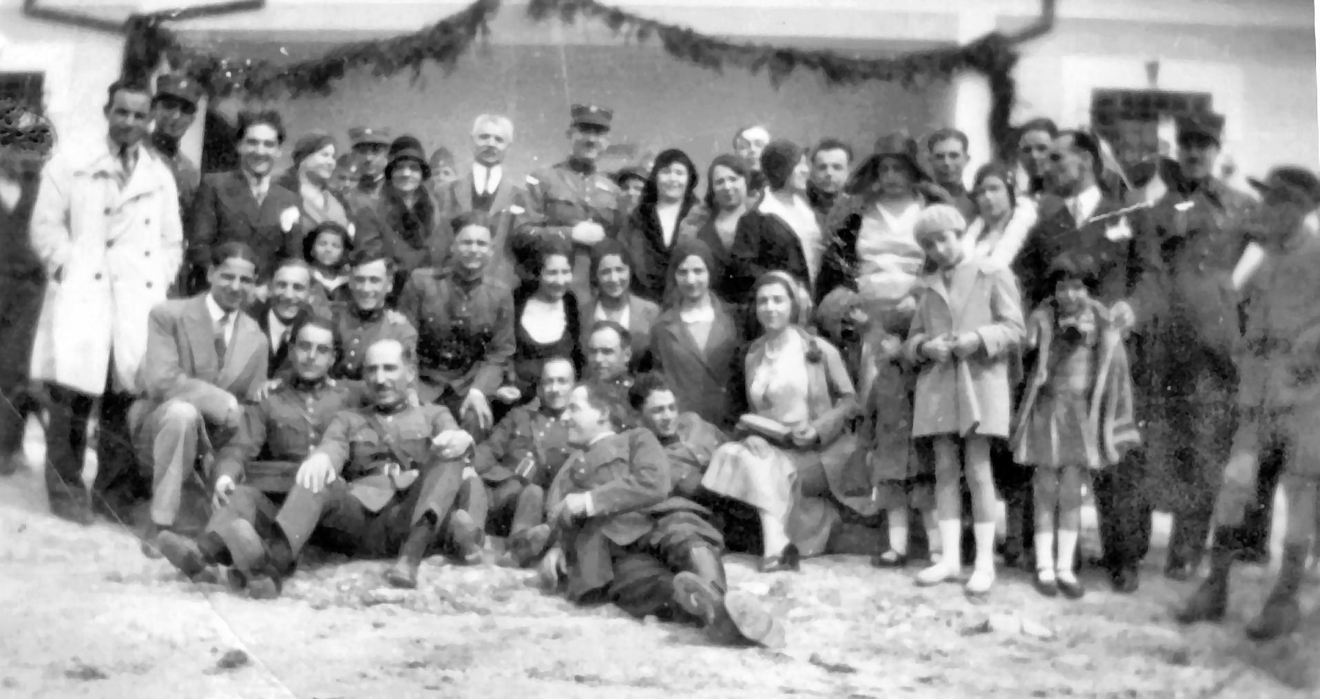 Picture of teachers and graduates of Theodoros Natsinas College in Thessaloniki, Macedonia, Greece. In the fotograph are also his wife Melpomeni Tagi - Natsina, his daughter Sultana Natsinas and 2 of his 3 sons, Leandros Natsinas and Alexandros Natsinas who became later General of the Greek Army.